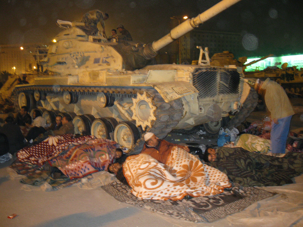 this tank will move ,over my body